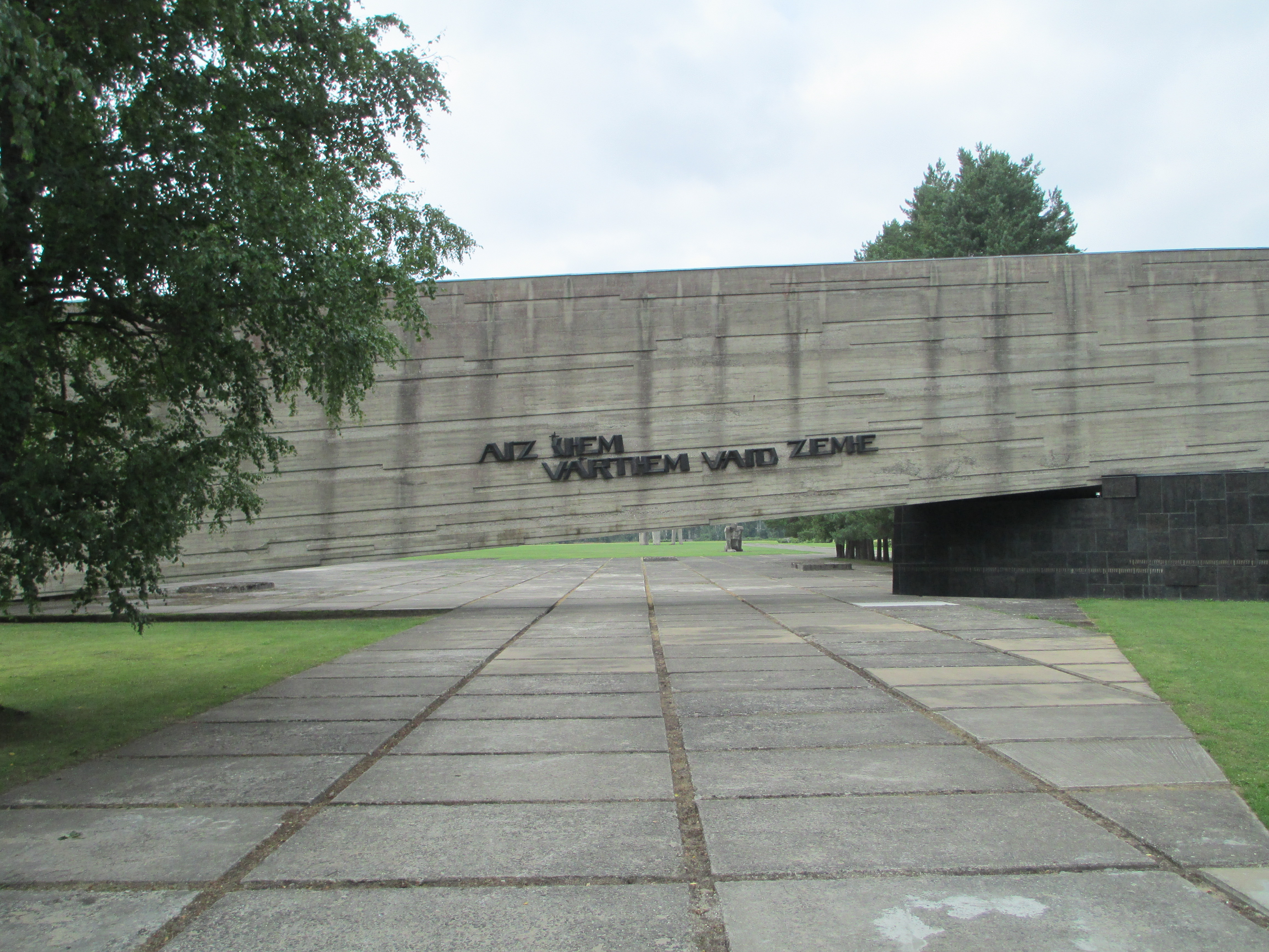 salaspils labor (concentration) camp